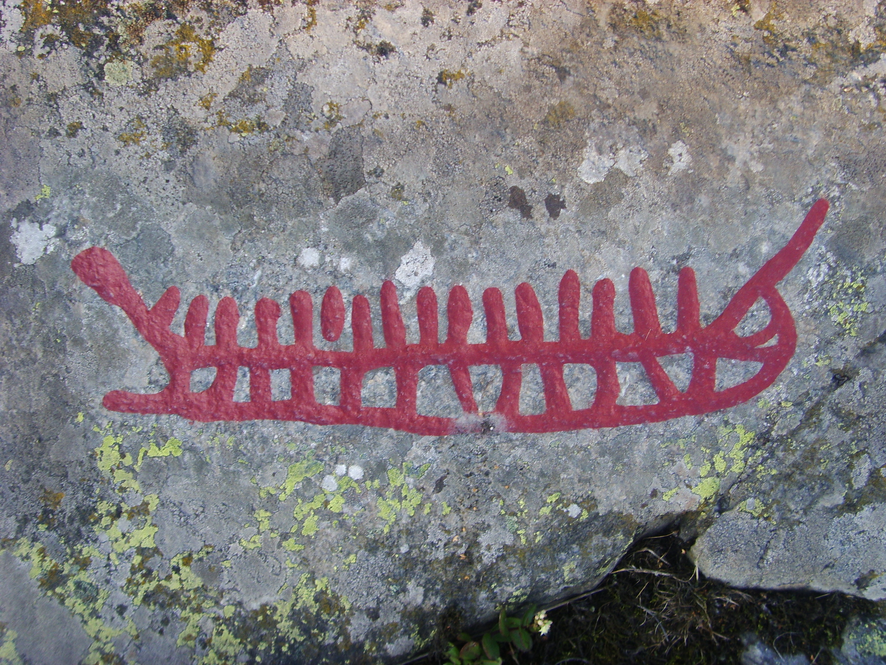 The rock carving sites of Norrköping are concentrated to the area around the river Motala ström (2 x 5 km), which was suitable for settlement during the Bronze Age (c 1800-500 BC), The pictures (more than 7300) are dominated by cup marks (c 4000) and ships, but the visitor also will discover humans, animals, weapons and sun symbols.